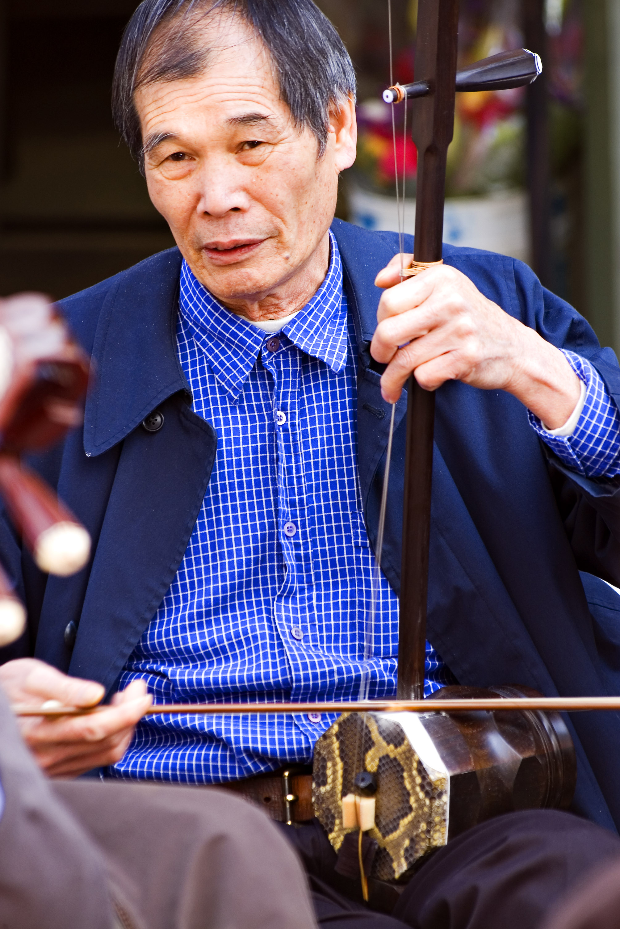 A musician playing a Cantonese-style zhonghu with a street band. Taken in Chinatown, San Francisco, United States, with a a Pentax K100D digital camera.